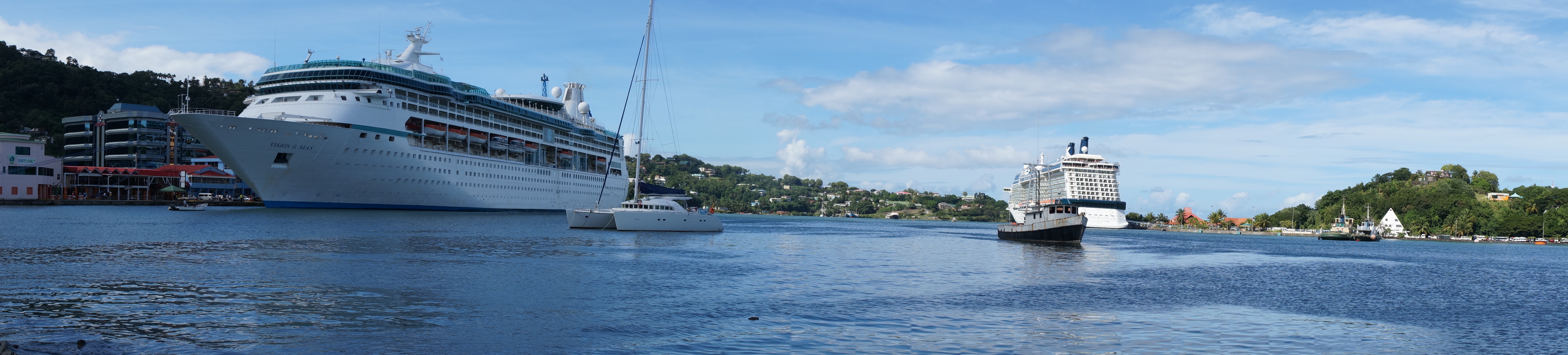 Panoramic photo of Port of Castries